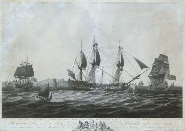 Aquatint & etching; 595 mm x 840 mm The 'Pitt' (circa 1787) near Dover returning from China 1787 To George Mackenzie Macaulay...This Representation of the Ship 'Pitt', in the...East India Company, on her return from China off Dover, ..1787, is...Inscribed...